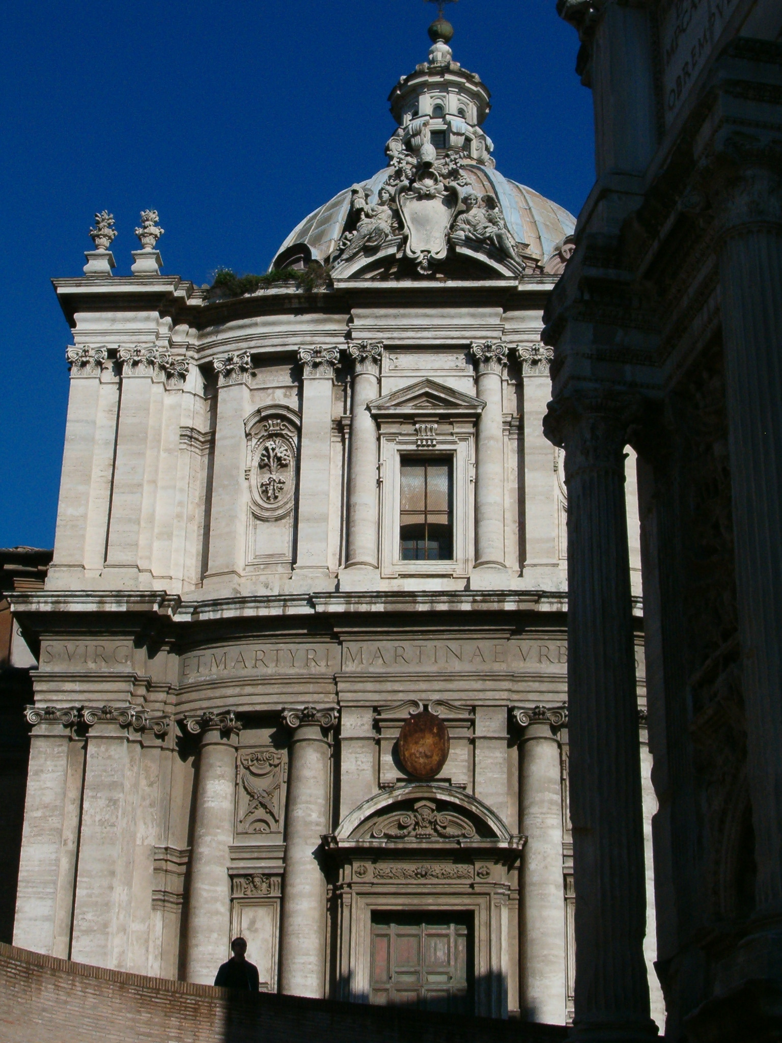 Church of Santi Luca e Martina in Foro, Rome.